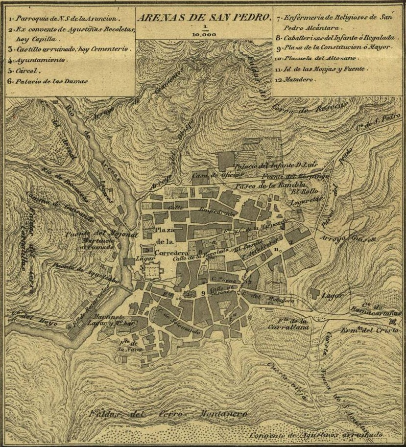 Map of Arenas de San Pedro cropped from the 1864 province of Ávila map by Francisco Coello